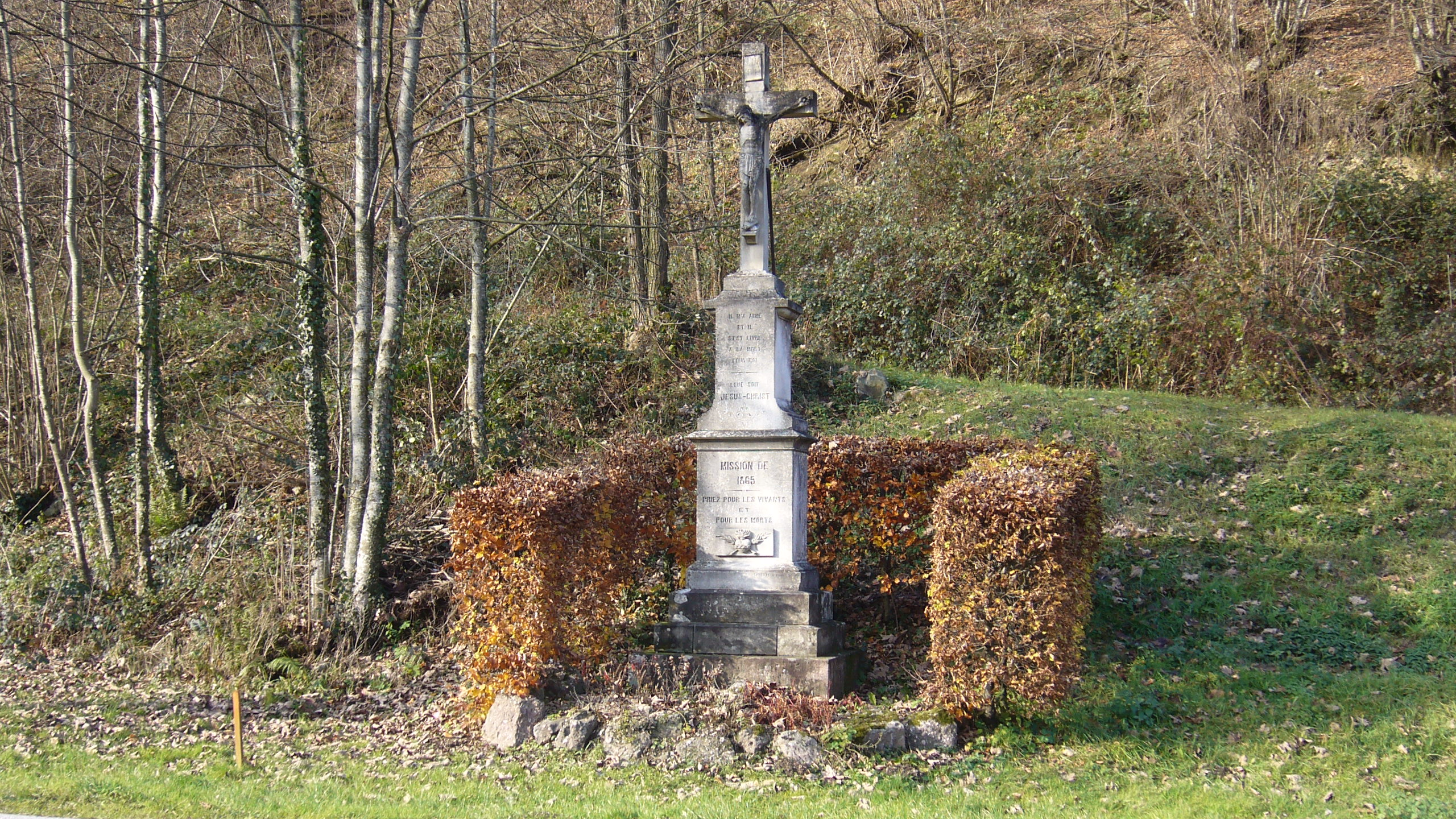 Calvaire Fouchy 002.JPG